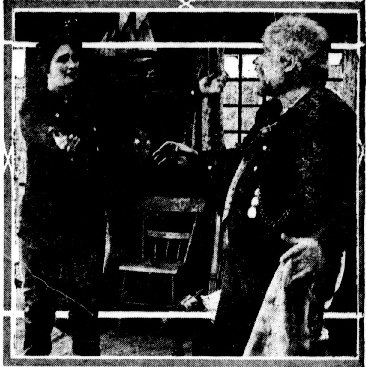 The Battle of Hearts is a 1916 silent film adventure romance directed by Oscar Apfel and produced and distributed by Fox Film Corporation. It stars William Farnum and Hedda Hopper (billed as Elda Furry; her birth name). This is a scene from the film as it appeared in a contemporary newspaper.